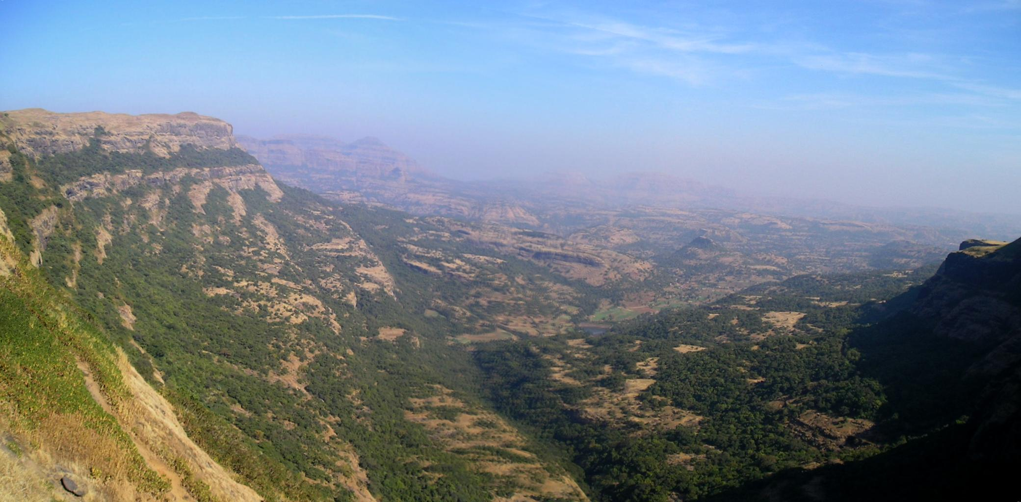 Panoramics in Maharashtra